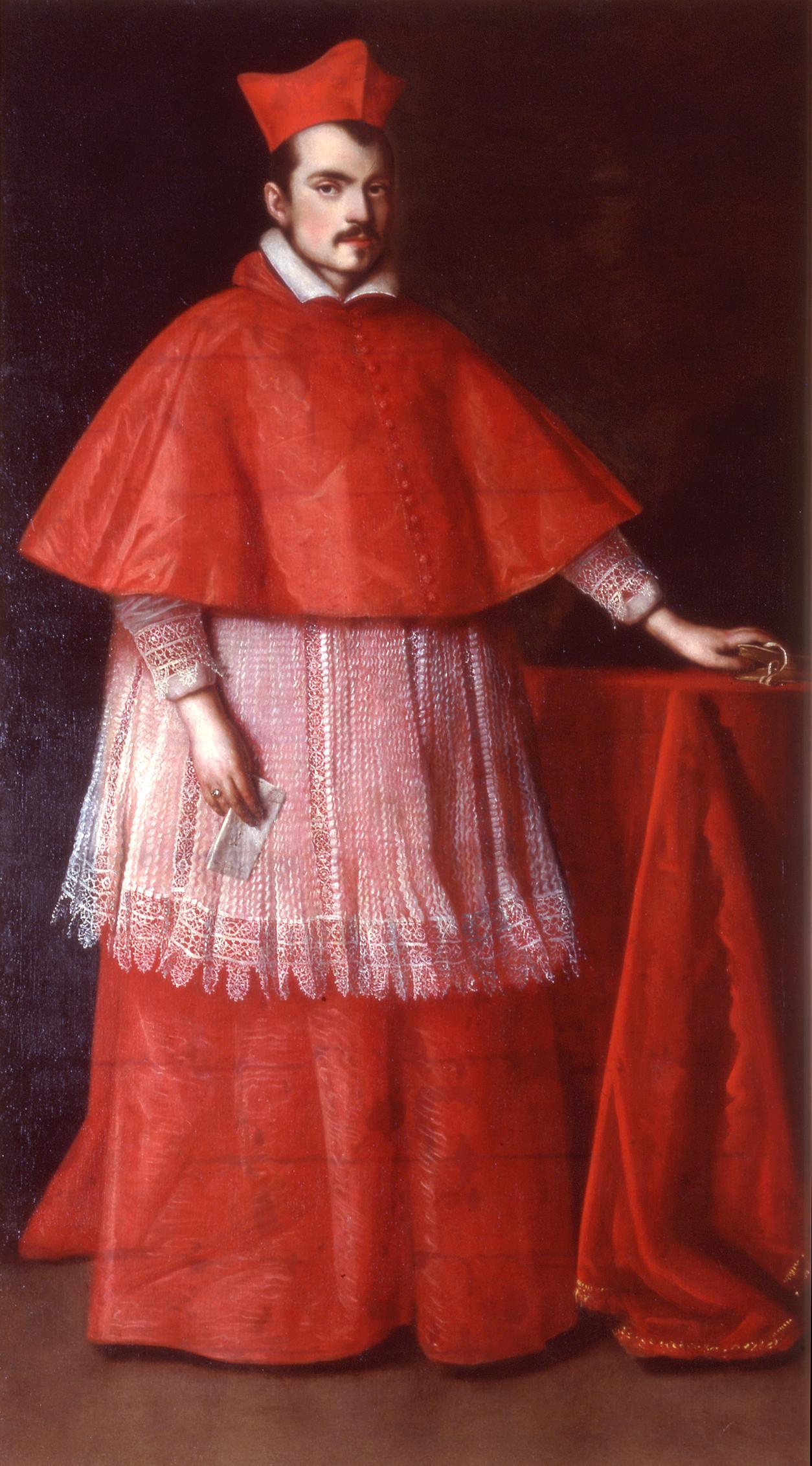 Portrait of Cardinal Ludovico Ludovisi